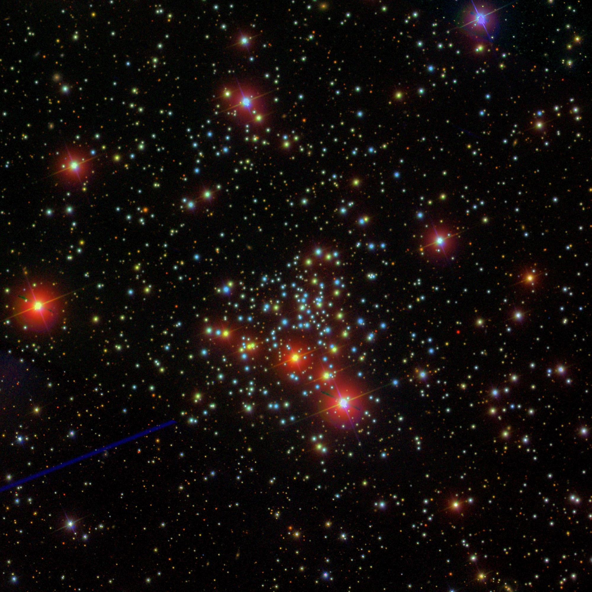 Angle of view: 15' × 15' (0.45" per pixel), north is up.